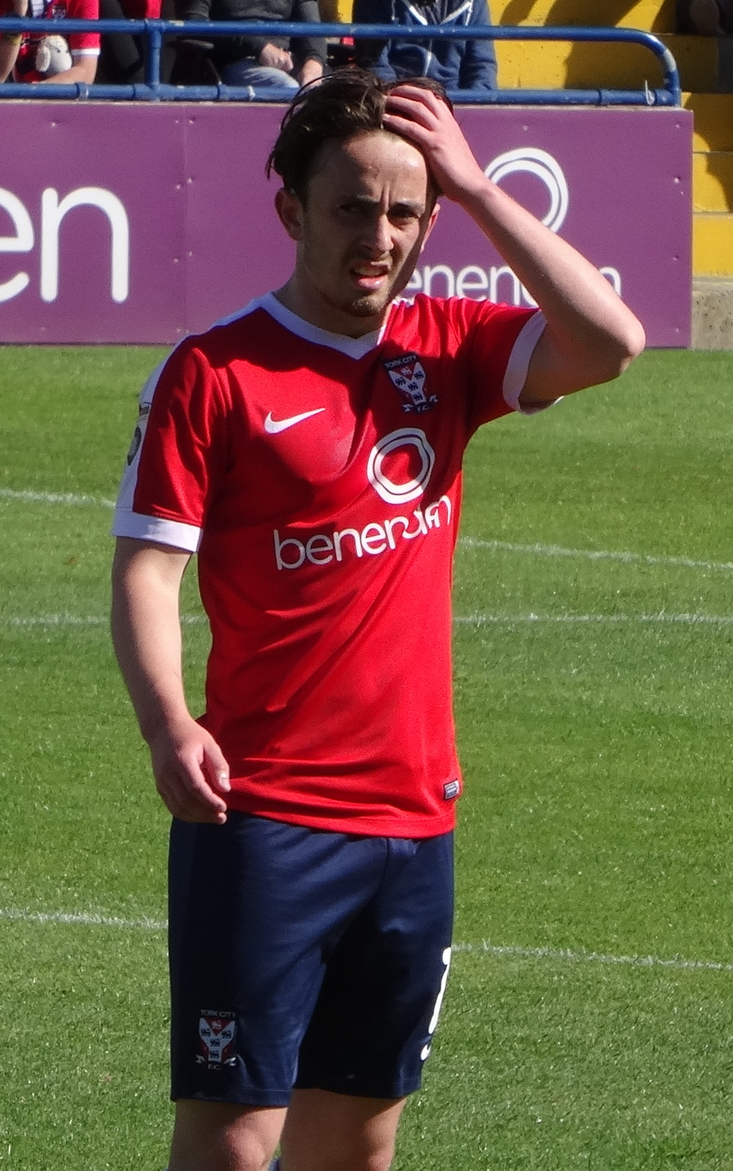 Aidan Connolly playing for York City against Boreham Wood at Bootham Crescent, York on 13 August 2016